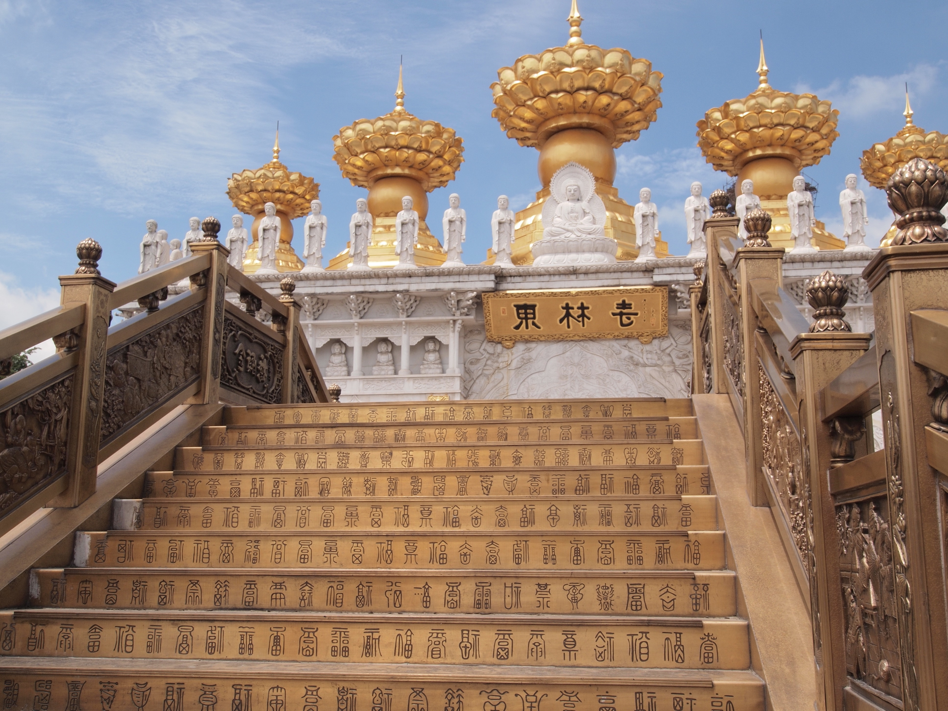 Donglin Temple Shanghai